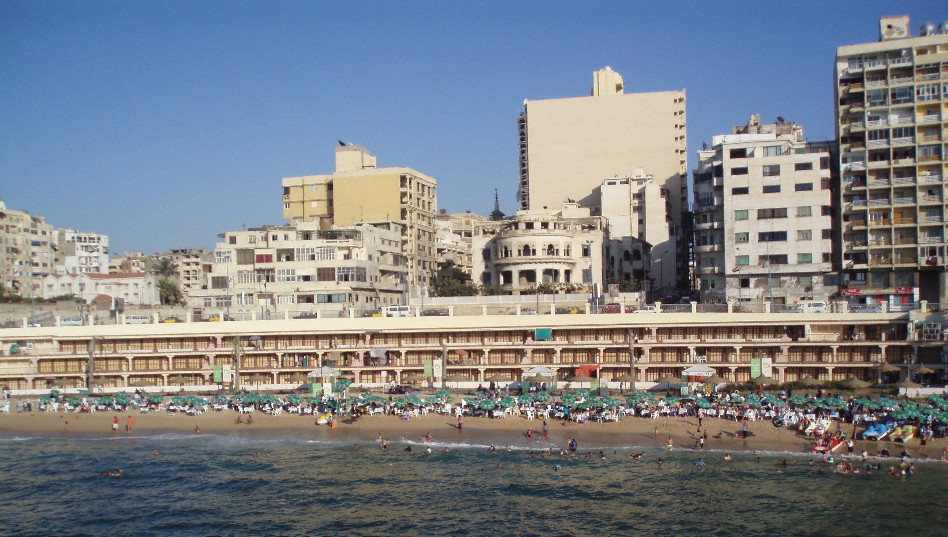 View of Stanley Beach from the Stanley Bridge. Three levels of beach cabins located to rear of beach.